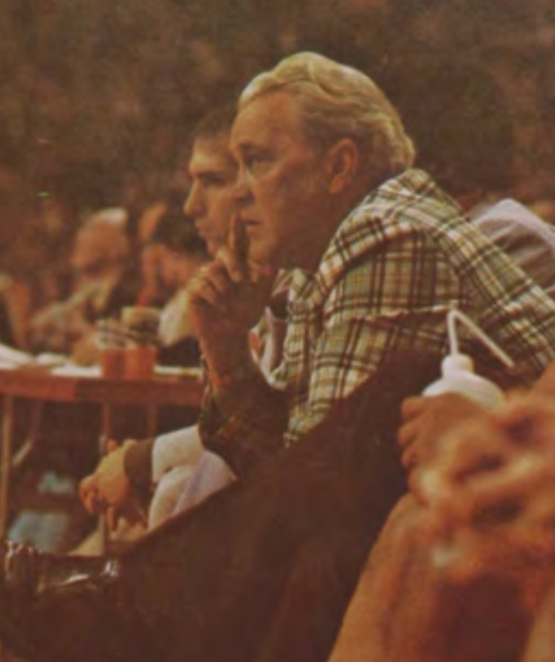 University of Rhode Island Rams basketball coach Jack Kraft from the 1975 “Renaissance” yearbook.